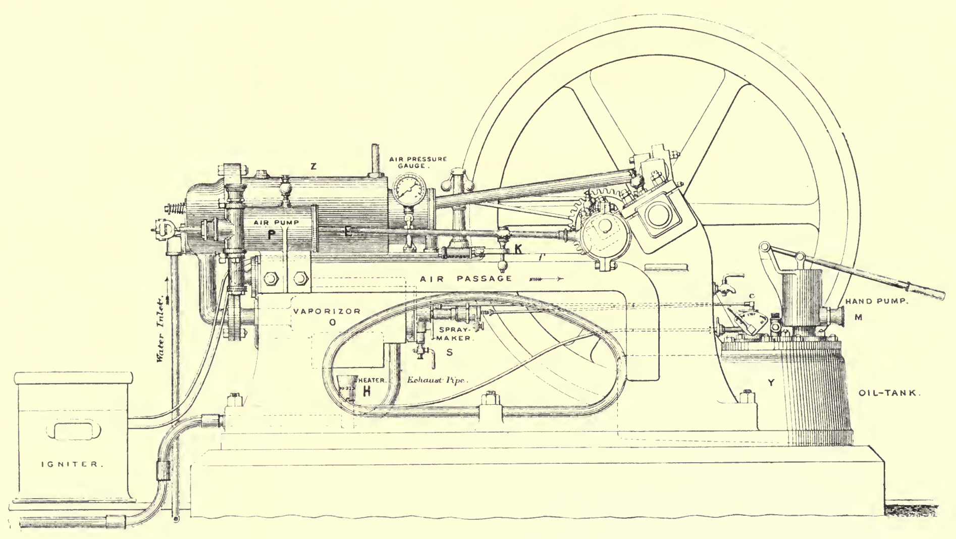 Diagram of Priestmann Oil Engine from Fig 150 p461 The Steam engine and gas and oil engines John Perry Text and Image found at